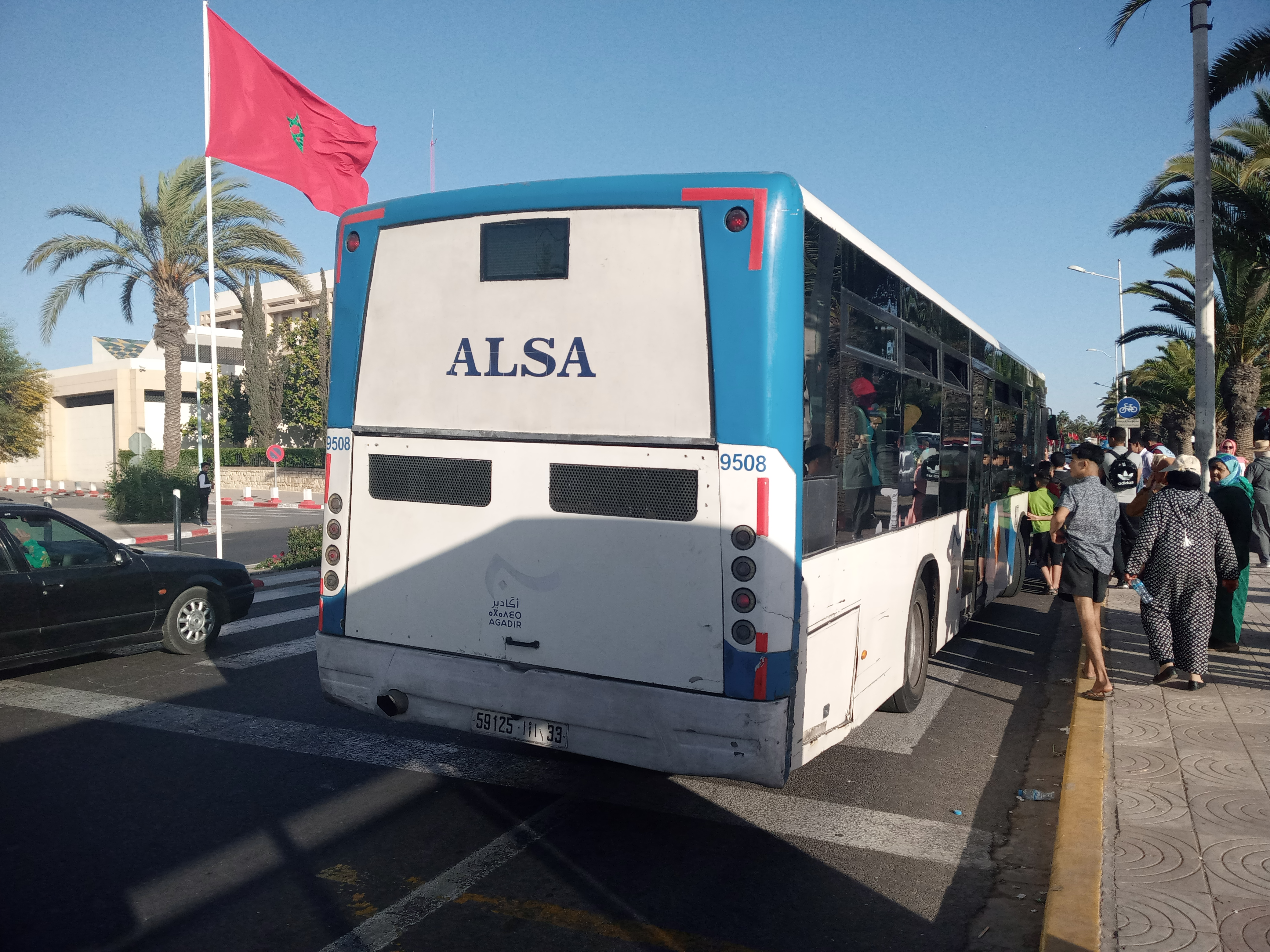 Alsa Bus Morocco This is an image with the theme "Africa on the Move or Transport" from: Morocco